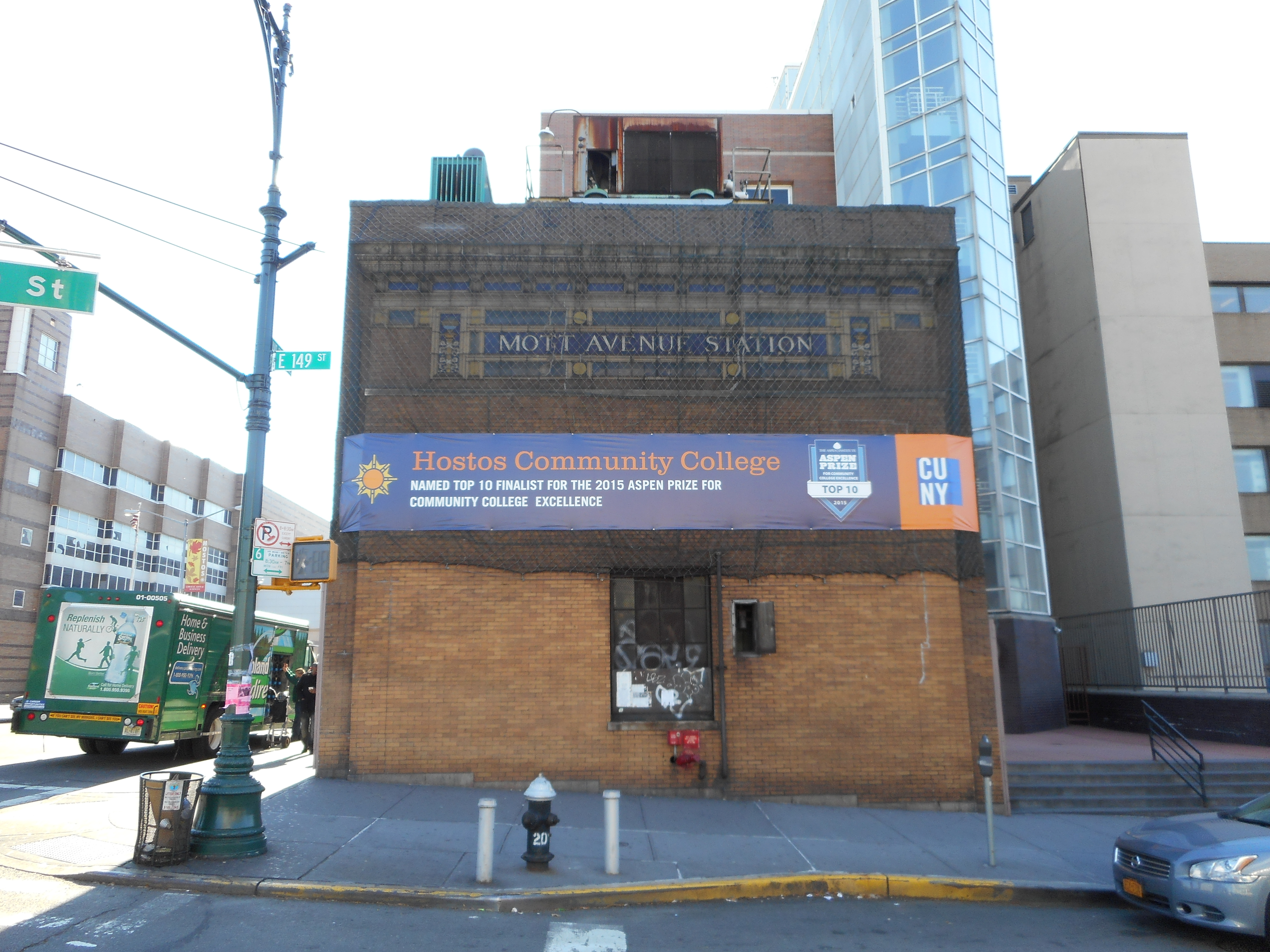 Full color version of the Mott Avenue Control House at the 149th Street – Grand Concourse (IRT White Plains Road Line) station, in the Mott Haven section of The Bronx, New York City.